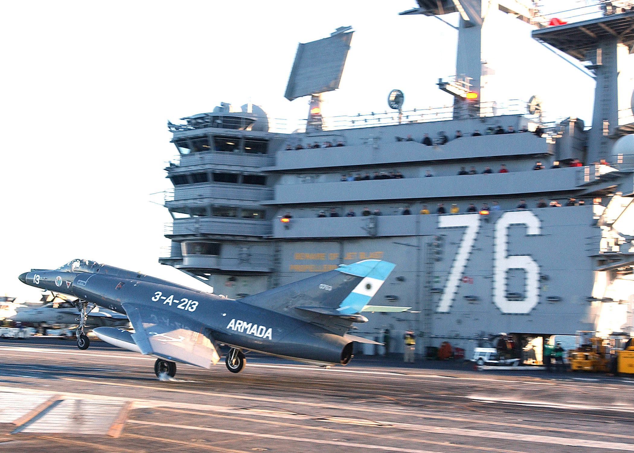 South Atlantic Ocean (June 17, 2004) – An Argentine Navy Dassault Super Etendard jet aircraft performs a touch and go landing, during flight operations aboard the Nimitz-class aircraft carrier USS Ronald Reagan (CVN 76). The Dassault-Breguet Super Etendard is a carrier-based single-seat strike fighter first introduced into service in 1978. It is armed with two 30mm guns and can hold a variety of air-to-air weapons and air-to-ground munitions.